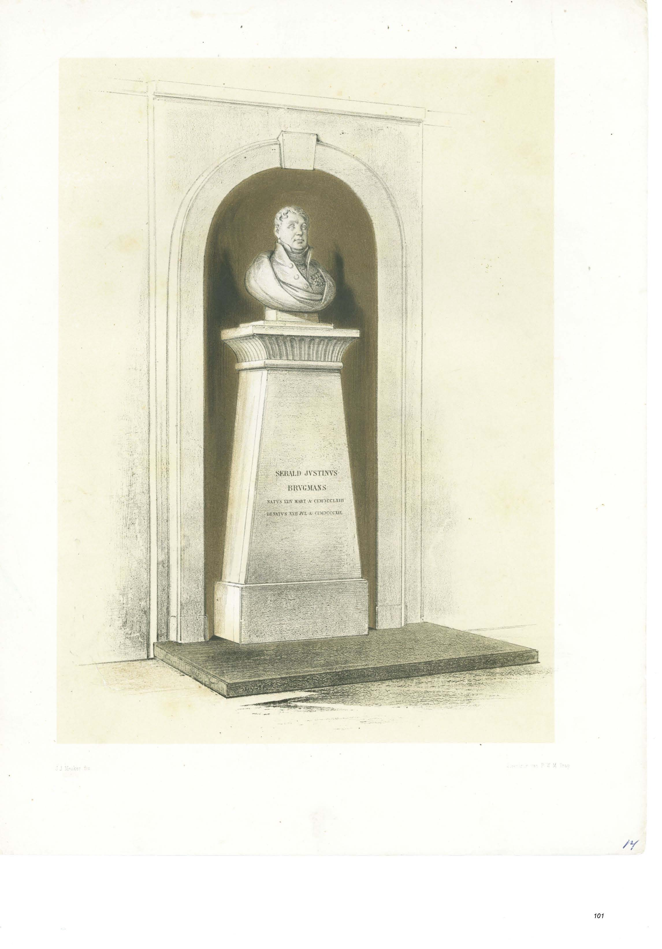 picture of the monument for Sebald Justinus Brugmans (1763 - 1819) in the Leyden Pieterskerk, made by Paul Gabriël; design: David Pierre Giottino Humbert de Superville